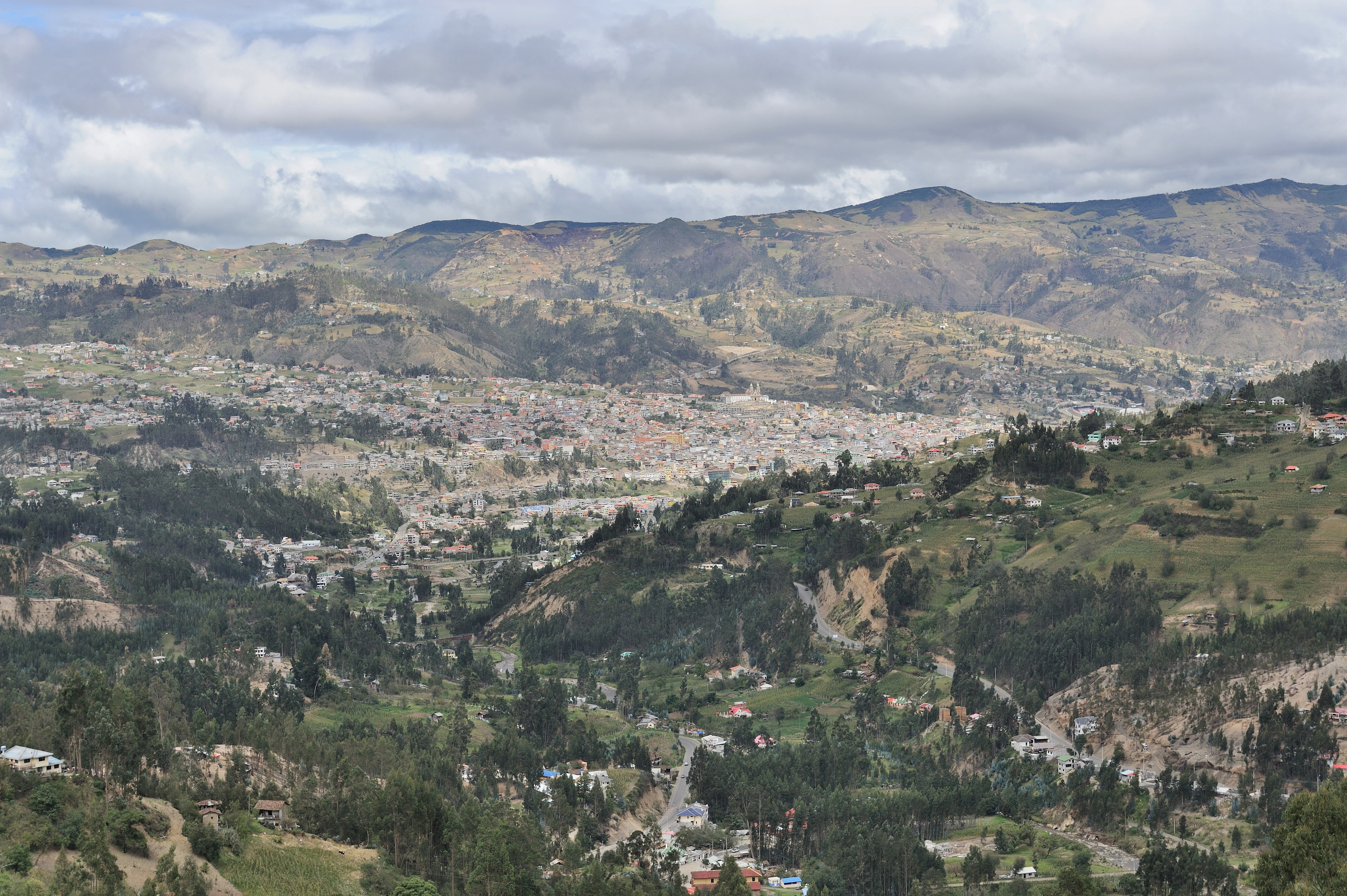 The town of Azogues, Ecuador, seen from the mountain ridge in the NW between Azogues and Biblian.